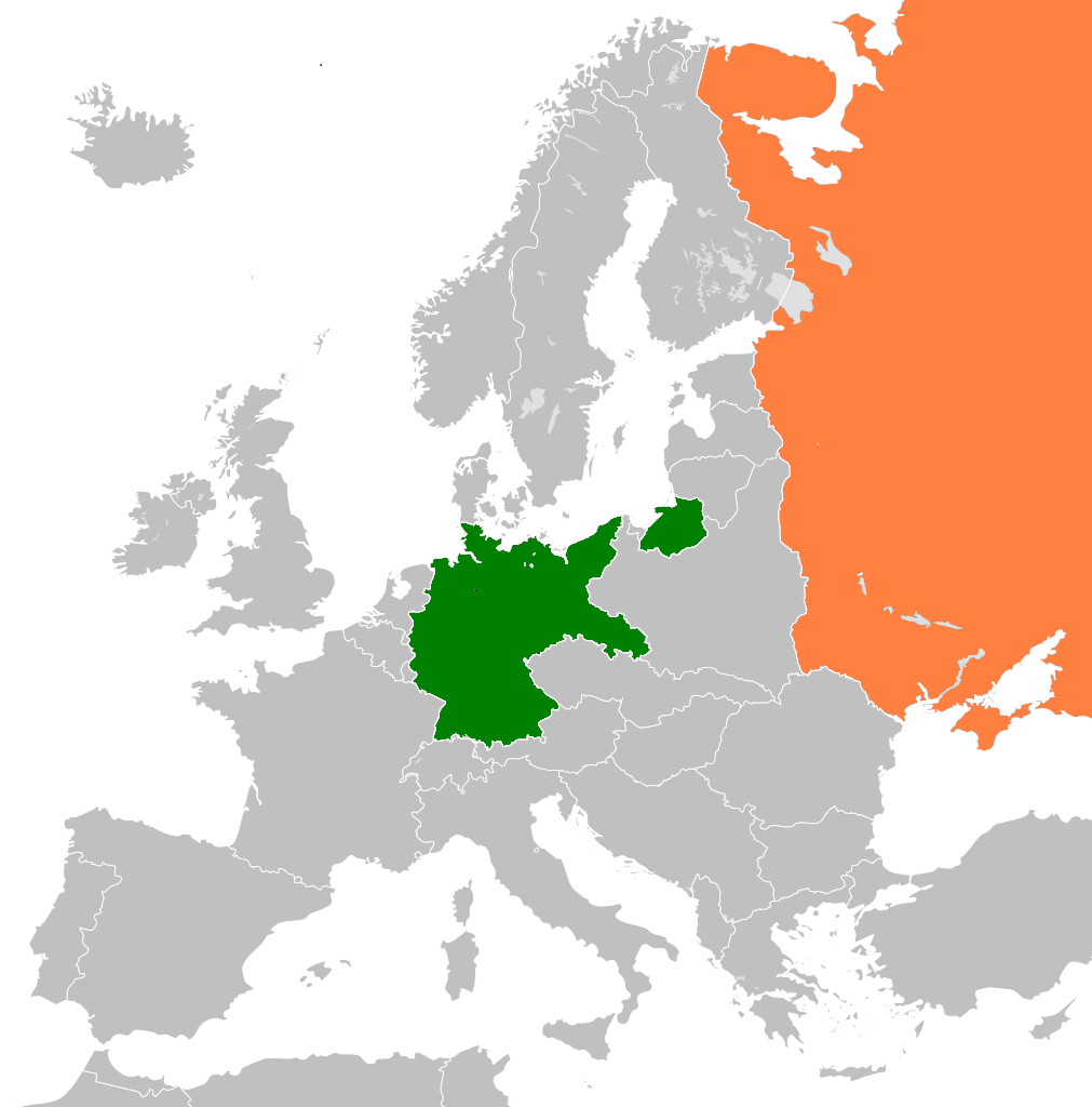 Germany Soviet Union Locator